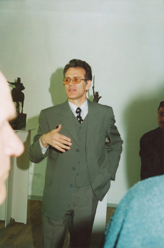 The Moldavian artist Tudor Zbarnea (90-ies).